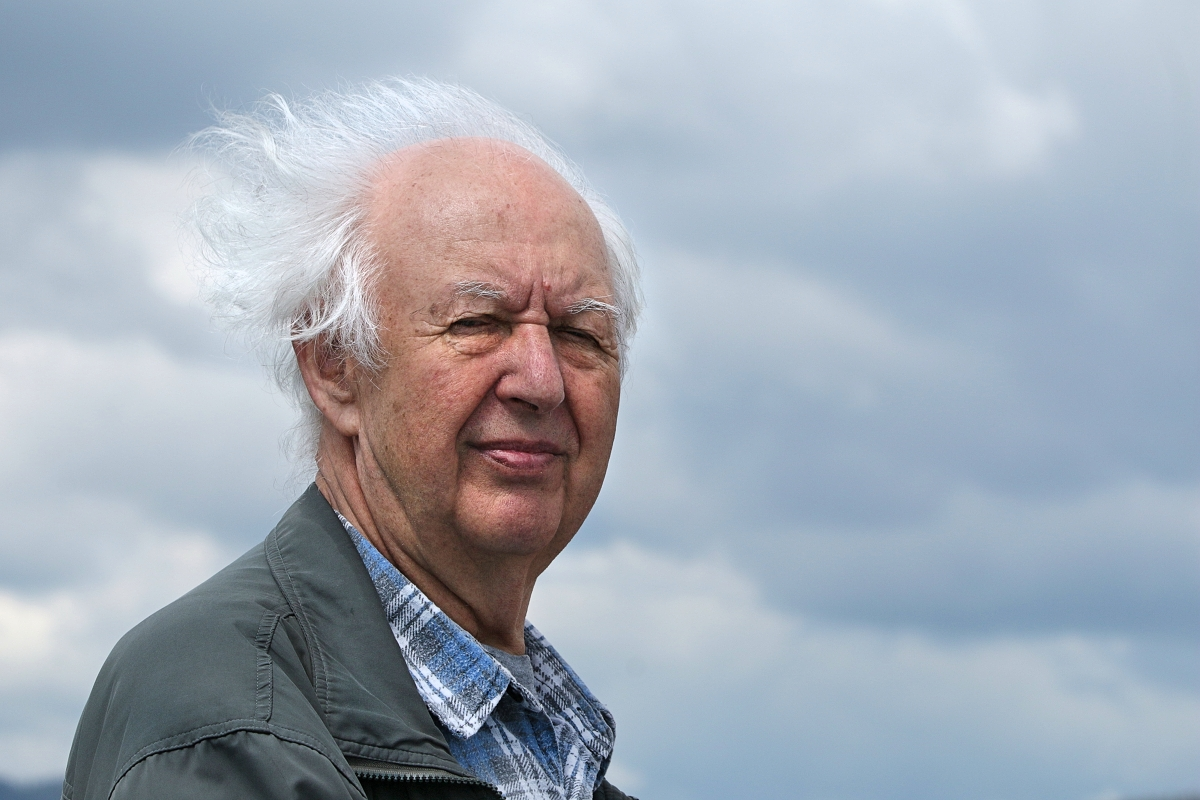 Jiří Langer